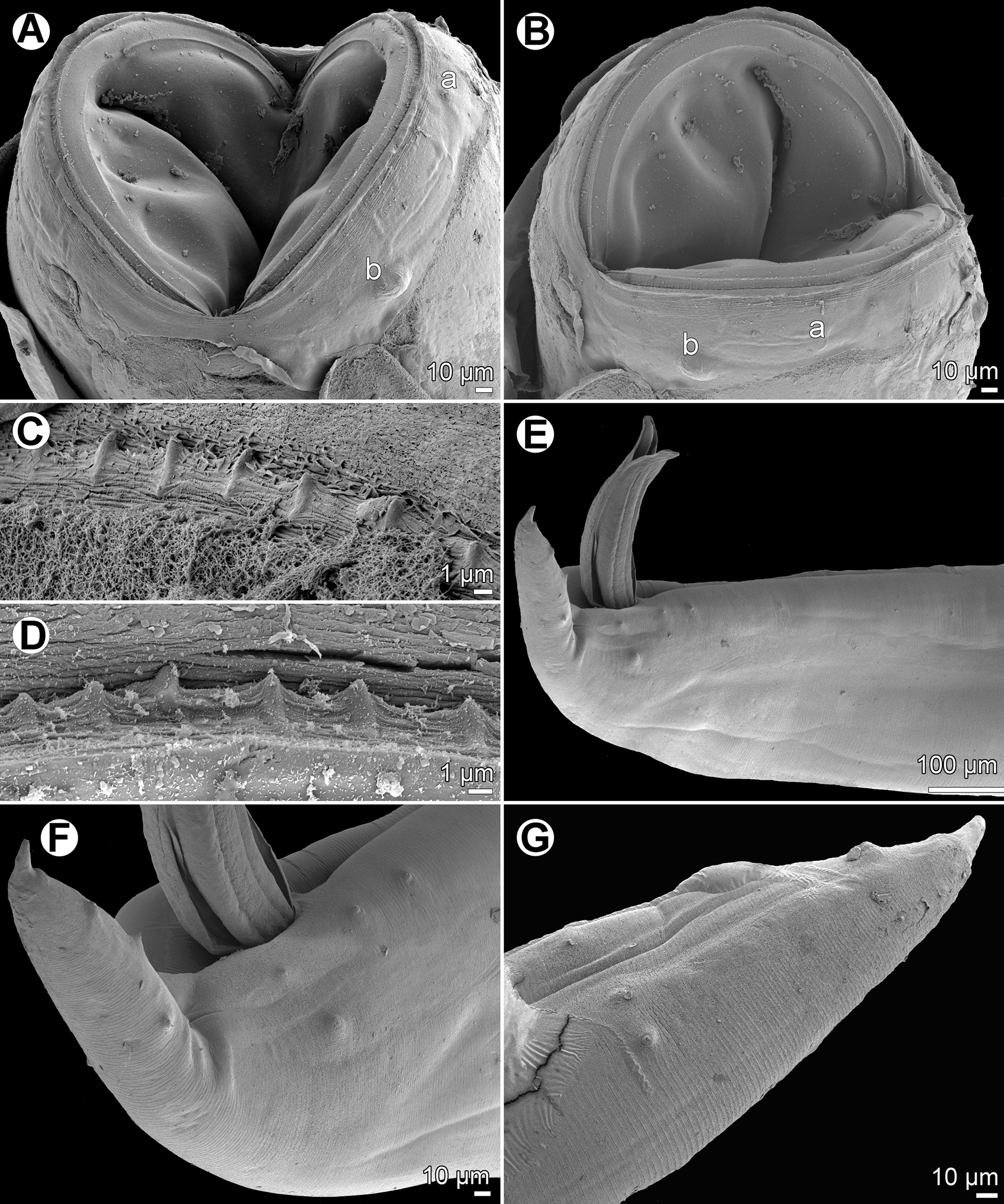 Figure 3 of the paper Cucullanus bulbosus (Lane, 1916), scanning electron micrographs. A, B: Cephalic end of nongravid female, ventral and lateral views, respectively. C, D: Peribuccal teeth of male and nongravid female, respectively. E: Posterior of male, lateral view. F: Tail of male, lateral view. G: Posterior part of male tail, lateral view. Abbreviations: a, amphid; b, cephalic papilla.